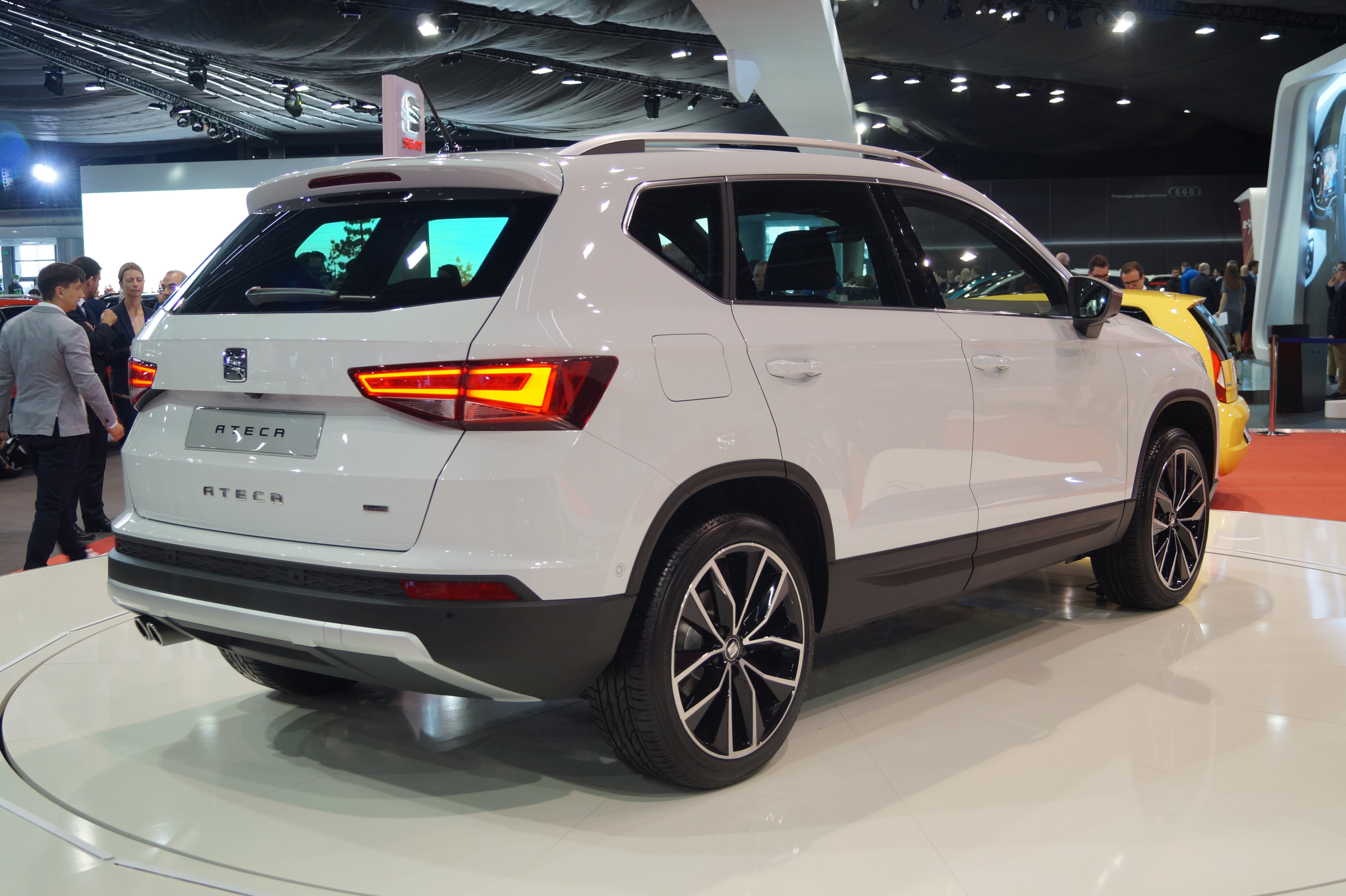 The making of this document was supported by Wikimedia Polska Association, within Wikigrant no. WG 2016-10. Prawy tył auta SEAT Ateca na Motor Show Poznań 2016